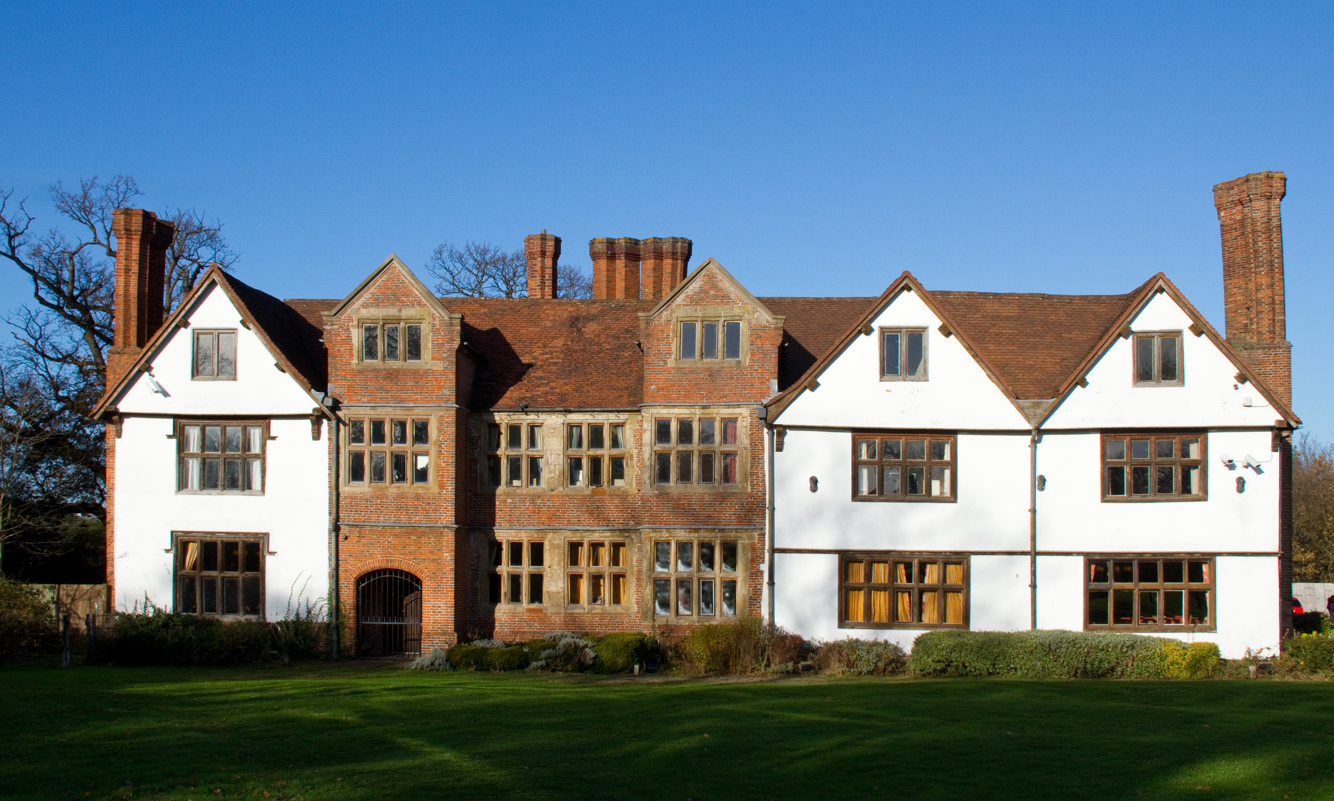 Early 16th Century with additions around 1600. The building is now used as a public house and restaurant.